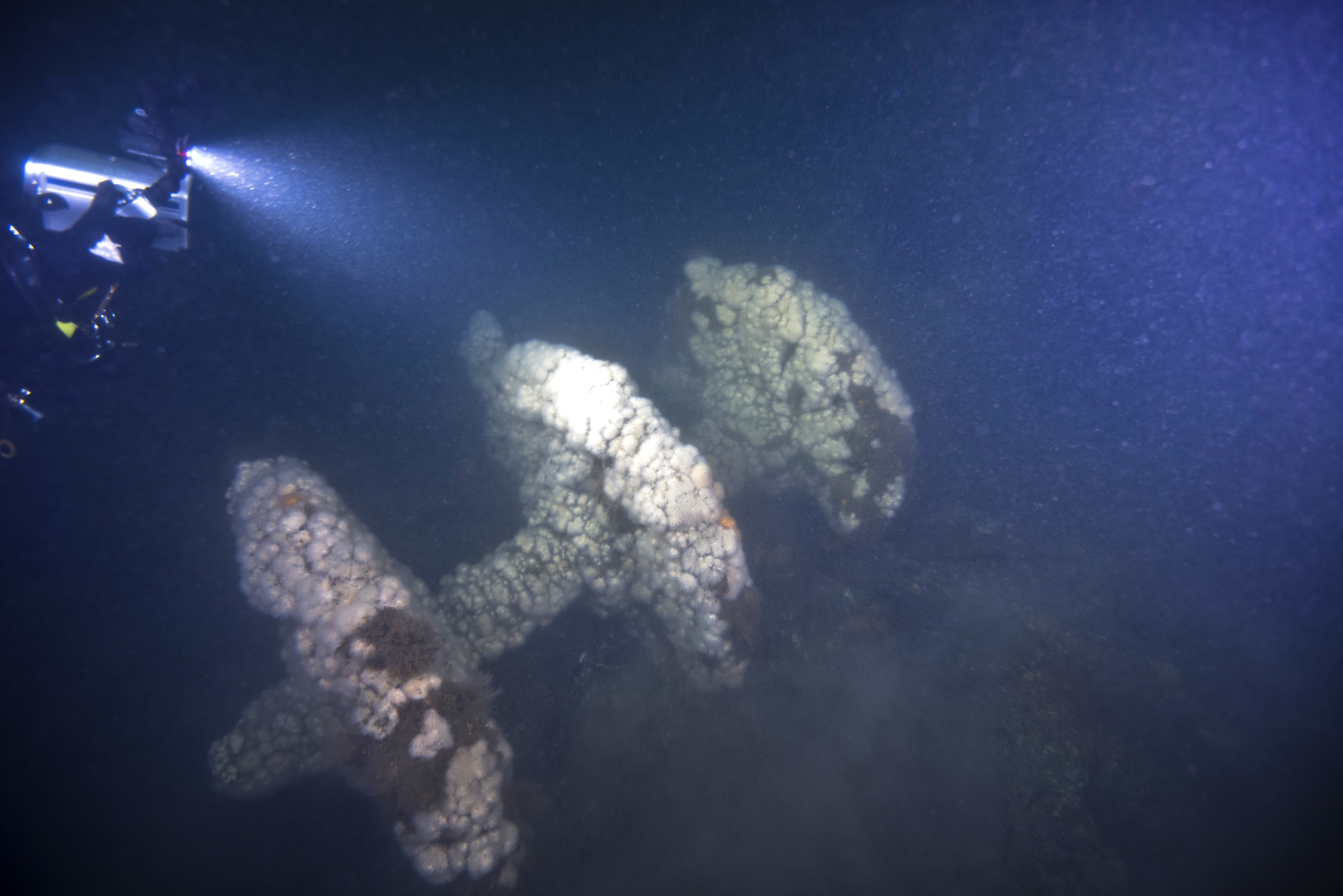 The paddlewheel flanges of the United States Coast Survey ship Robert J. Walker, photographed by a National Oceanic and Atmospheric Administration dive team on the bottom of the Atlantic Ocean off New Jersey. Robert J. Walker sank on 21 June 1860 after a collision, with the loss of 20 of her crew.